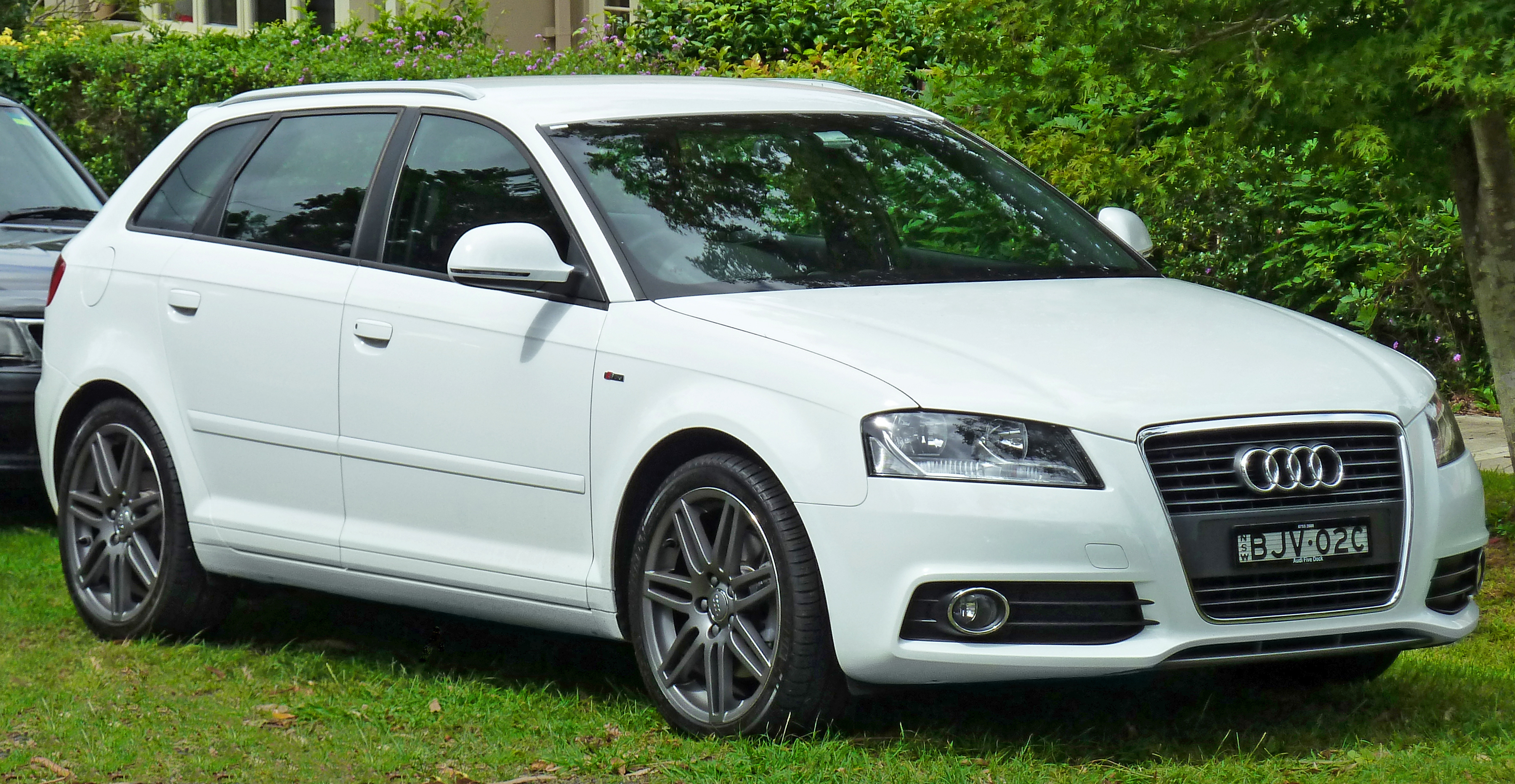 2009 Audi A3 (8PA) 2.0 TDI 5-door Sportback. Photographed in Lindfield, New South Wales, Australia.